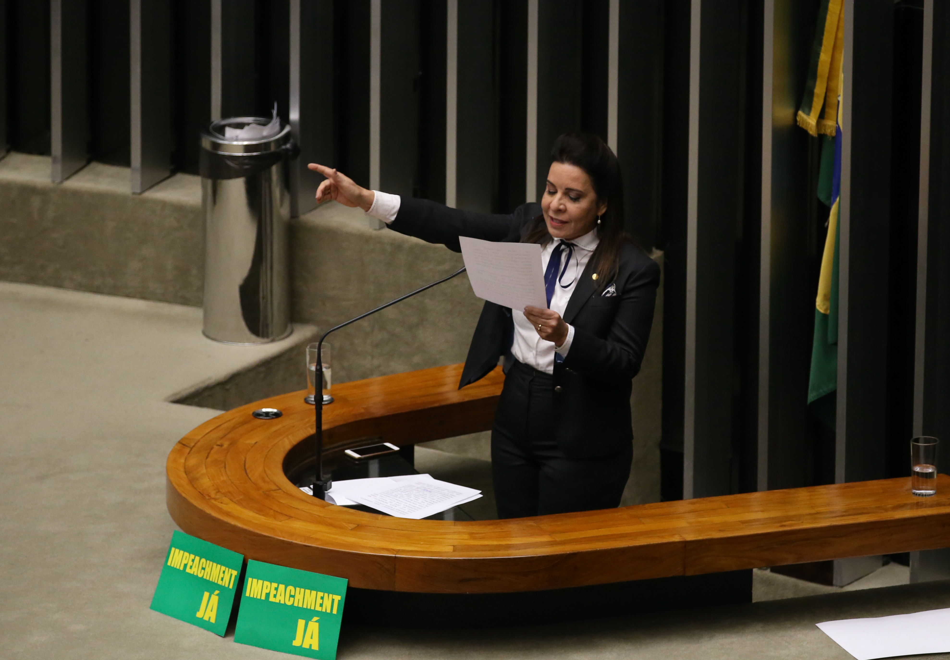 Brasília - Deputada Raquel Muniz durante sessão de discussão do processo de impeachment de Dilma, no plenário da Câmara (Valter Campanato/Agência Brasil)